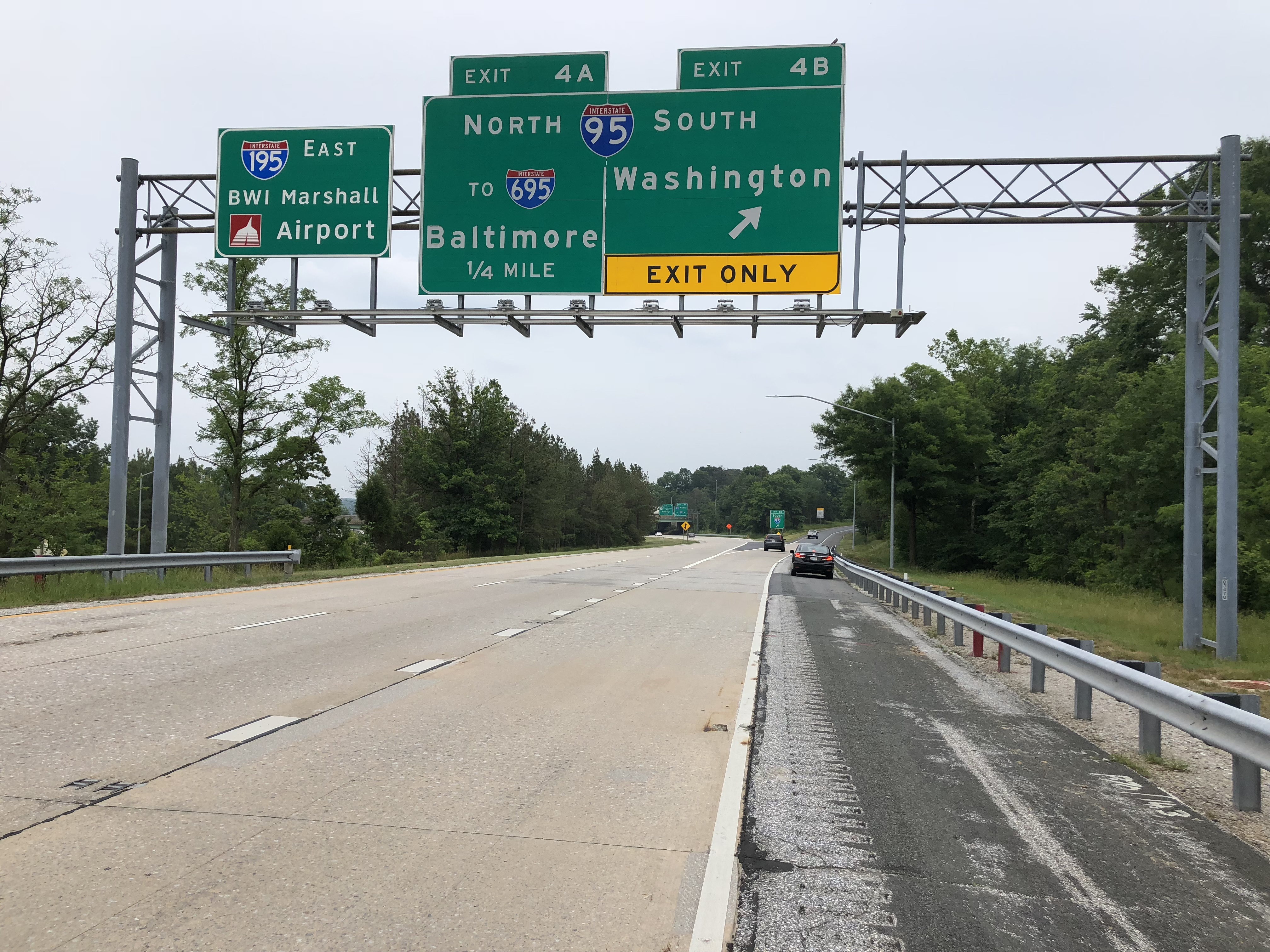 View east along Interstate 195 (Metropolitan Boulevard) at Exit 4B (Interstate 95 SOUTH, Washington) in Arbutus, Baltimore County, Maryland